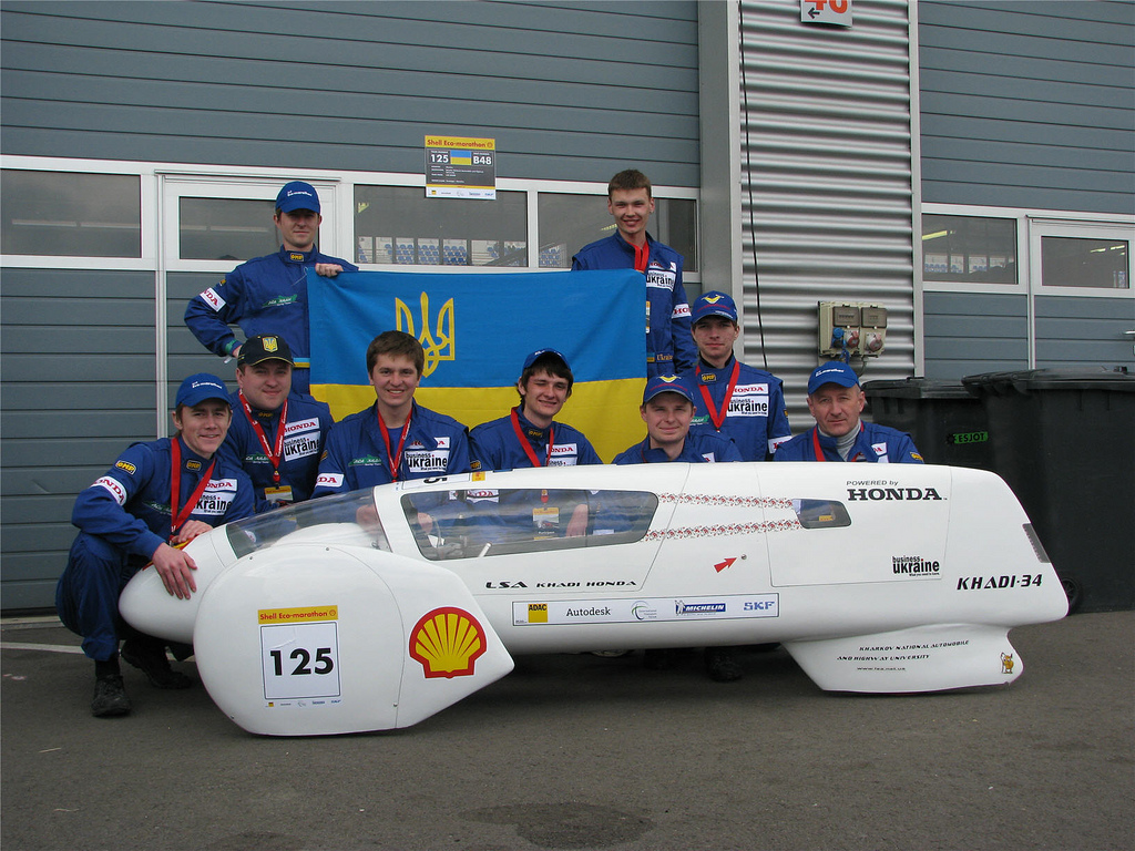 SEM Team from Ukraine 2010 and KhADI-34